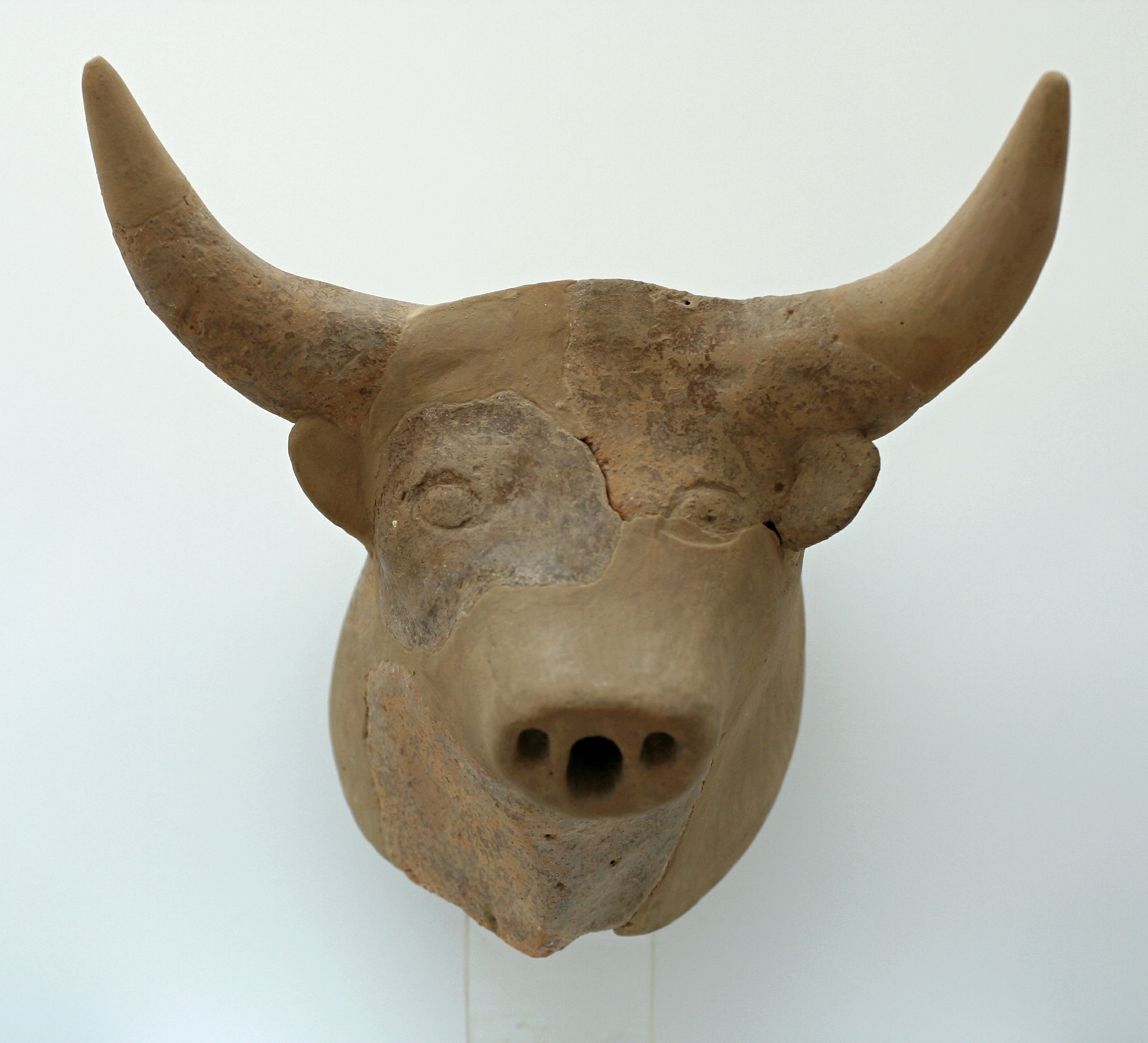 Rhyton in the form of a bull's head. Middle Minoan terracotta form shrine on top Prinias, near Sitia, 2000-1425 BC. Archaeological Museum of Agios Nikolaos.